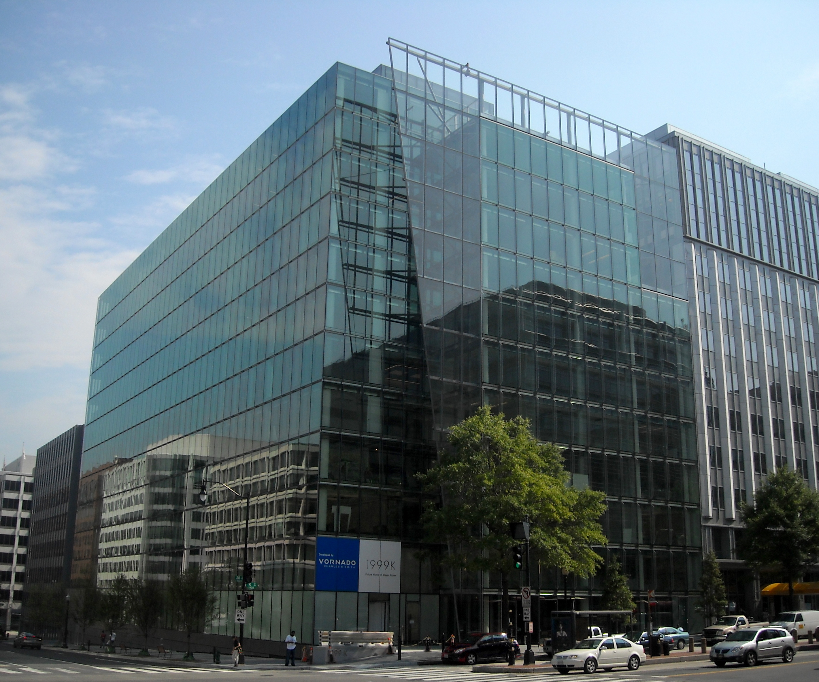 1999 K Street, NW, an office building located in Washington, D.C. It was designed by architect Helmut Jahn, and is being developed by Vornado Realty Trust.